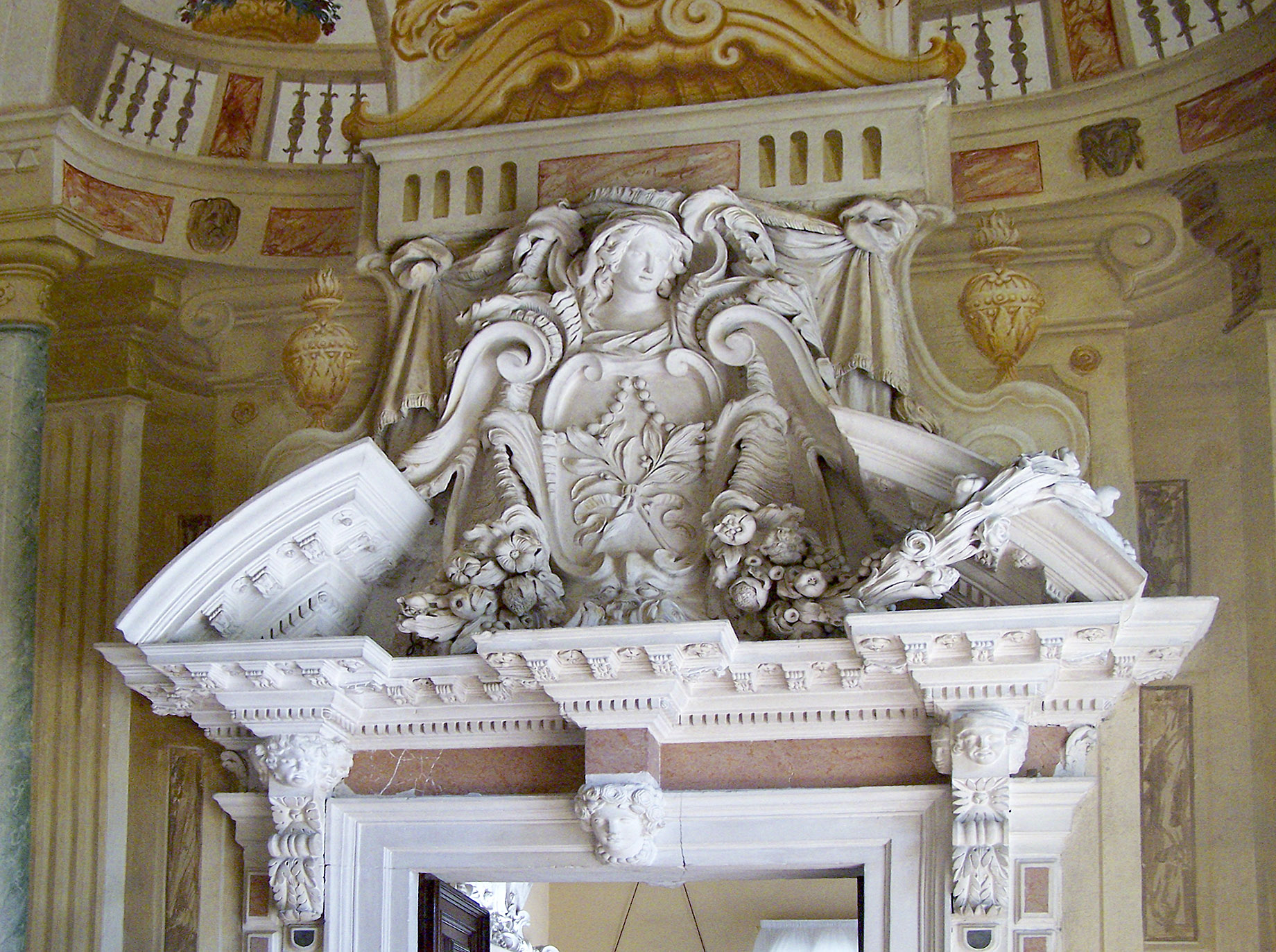 Villa Capra "La Rotonda" (1560) in Vicenza, Italy. Detail of ornamental "open pedimant" doorway. Detailed fresco paintings fill the wall and ceiling behind the door frame, southeast corridor, West wall